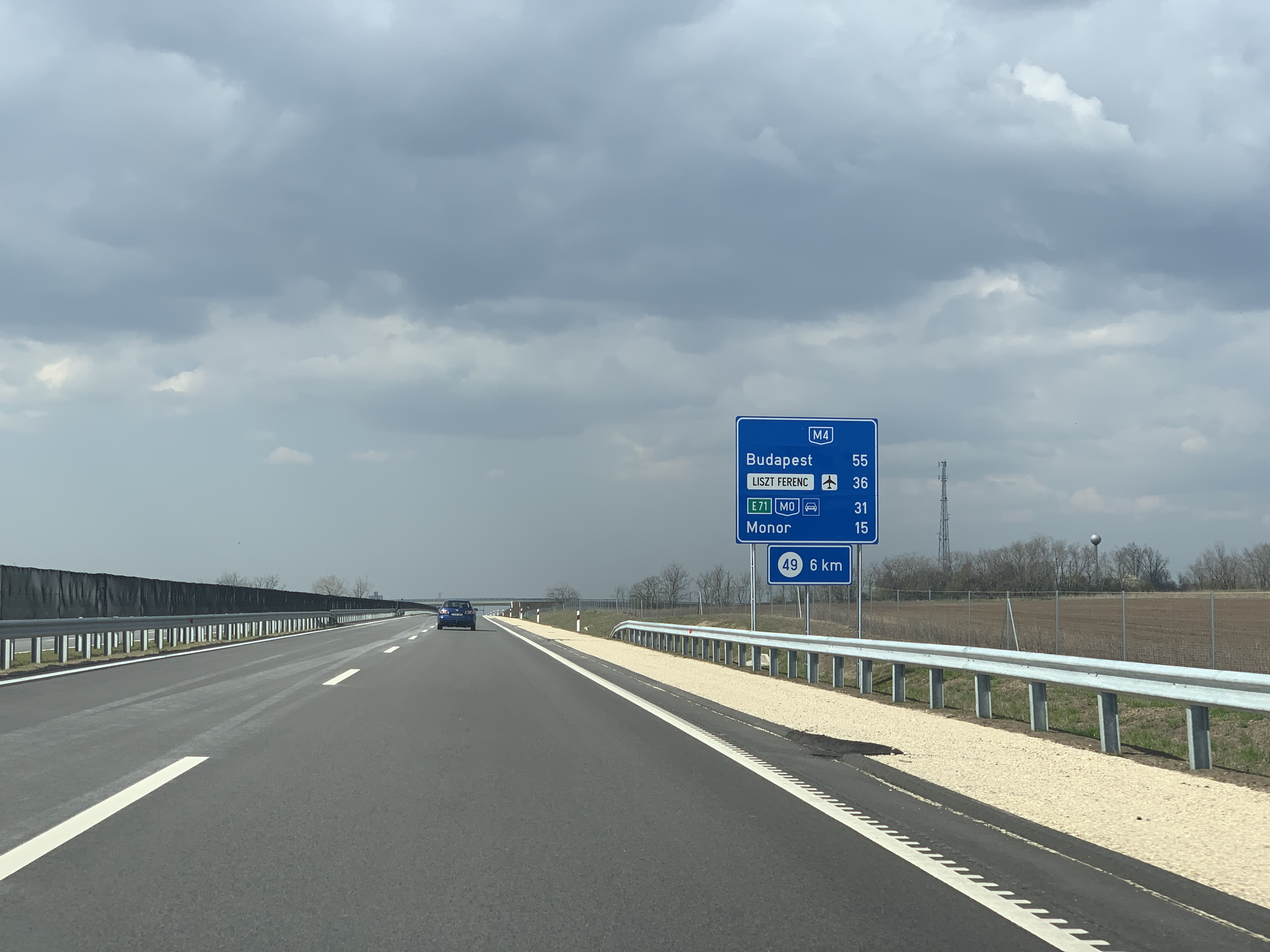 Motorway M4 in Hungary, near Albertirsa, in the direction of Budapest